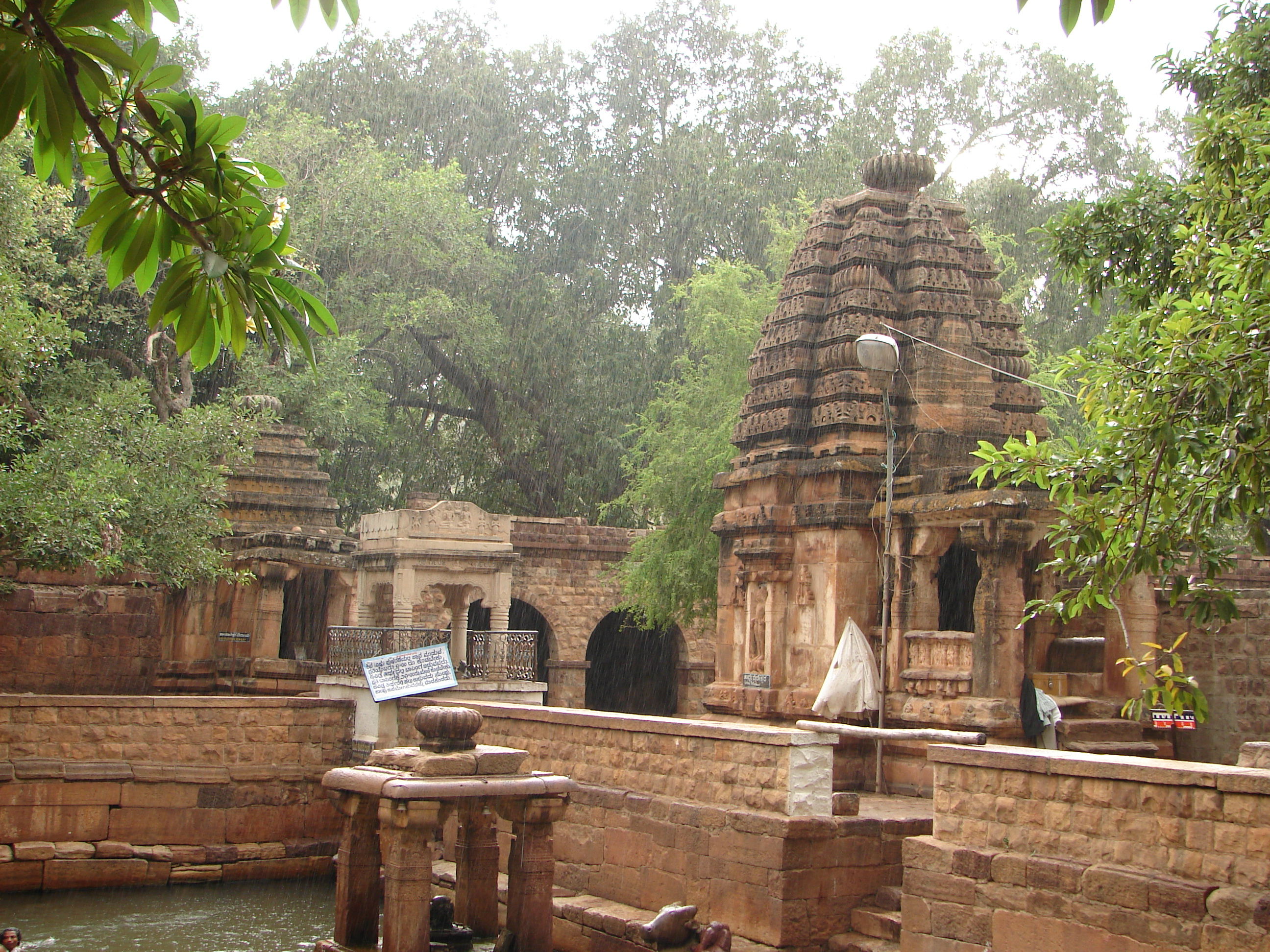 The Mahakuta group of temples were consecrated by the Badami Chalukyas in the 6th-7th century time period in Mahakuta, Bagalkot district of Karnataka state, India.